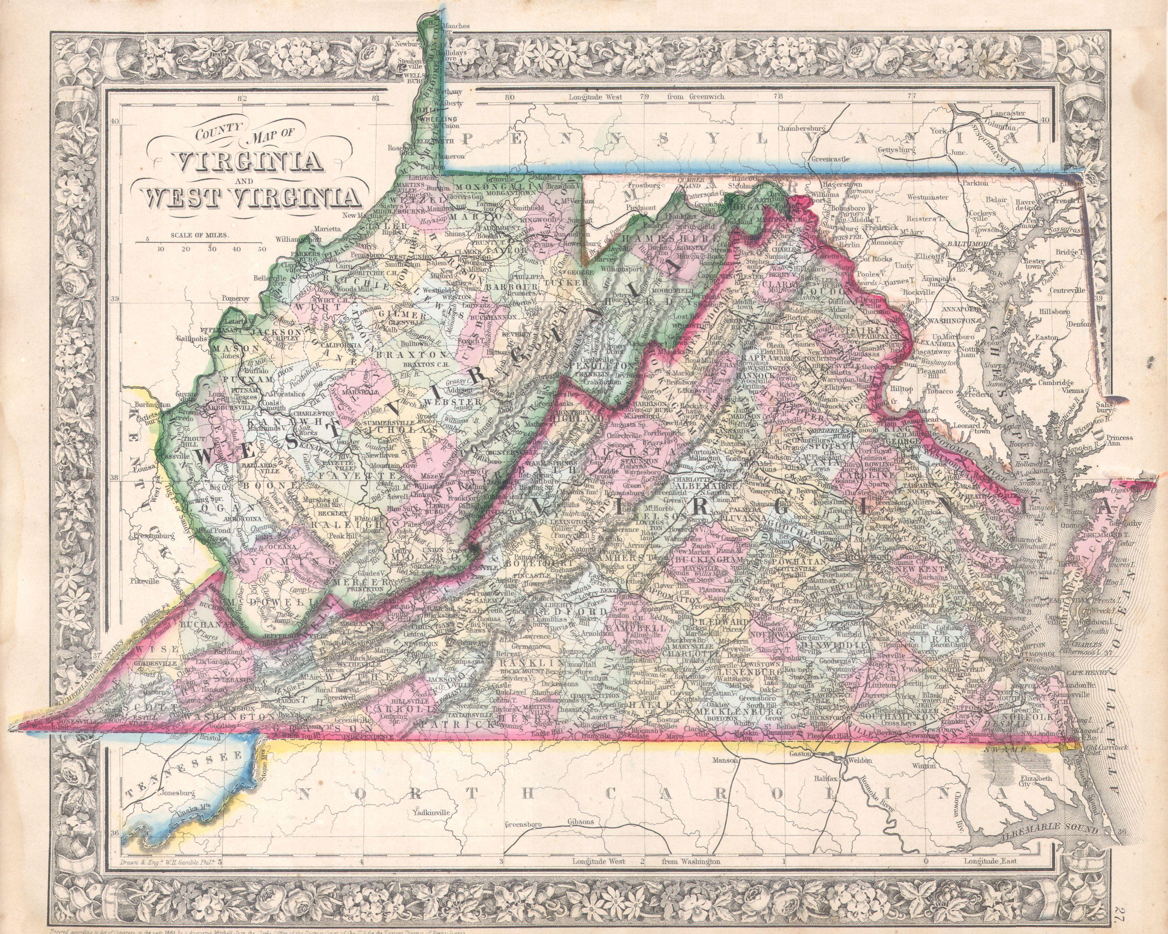 A beautiful example of S. A. Mitchell Jr.’s 1864 map of Virginia, West Virginia and Maryland. This map was revised version of Mitchells 1860 map of the same region to accommodate for the separation of Virginia and West Virginia in 1862. Includes the full Chesapeake Bay from Cape Henry to the mouth of the Susquehanna River. Curiously Harper’s Ferry is mapped into Virginia rather than West Virginia. Shortly after the end of the Civil War, Harpers Ferry, along with all of both Berkeley and Jefferson Counties, was separated from Virginia and incorporated into West Virginia. . The inhabitants of the counties as well as the Virginia legislature protested and is this that protest we see reflected here in Mitchell’s political map making. In the end the cartography was not to have his way and Harper’s Ferry was moved to West Virginia in subsequent maps, thus creating the West Virginia panhandle. One of the most attractive and interesting atlas maps of this region to appear in the mid 19th century. Features the floral border typical of Mitchell maps from the 1860-65 period. Prepared by W. H. Gamble for inclusion as plate 27 in the 1864 issue of Mitchell’s New General Atlas . Dated and copyrighted, “Entered according to Act of Congress in the Year 1863 by S. Augustus Mitchell Jr. in the Clerk’s Office of the District Court of the U.S. for the Eastern District of Pennsylvania.